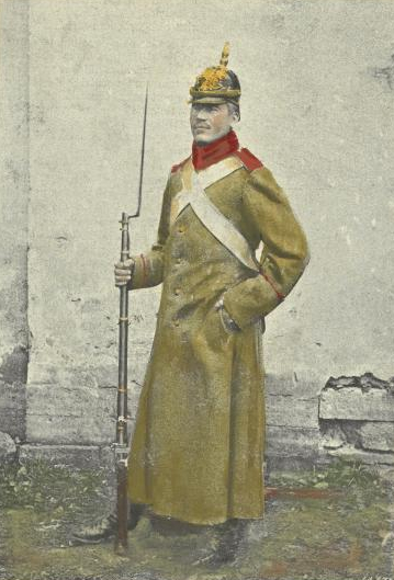 Russian soldier from 1862